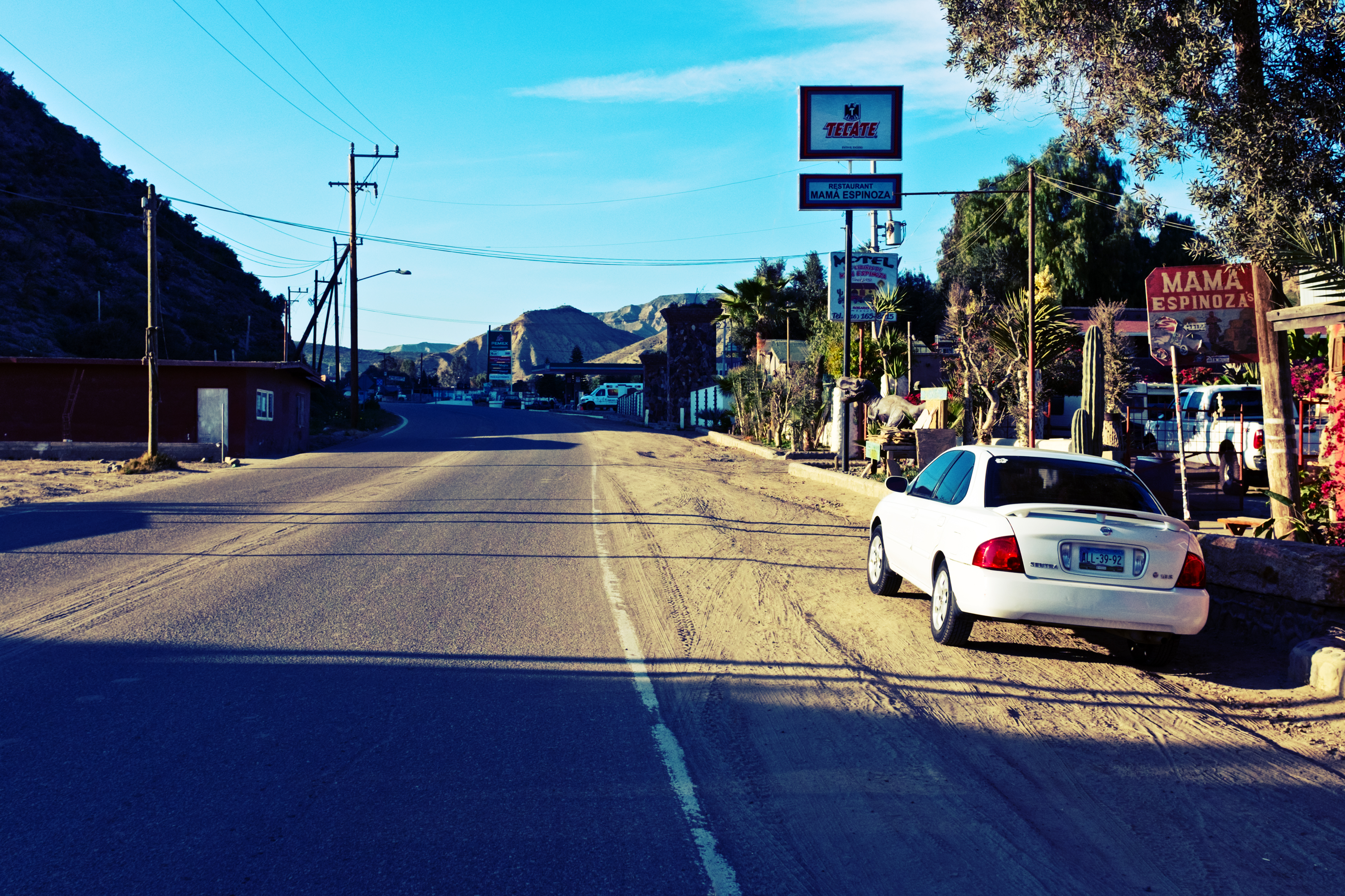 View of El Rosario, BC Mexico, looking north